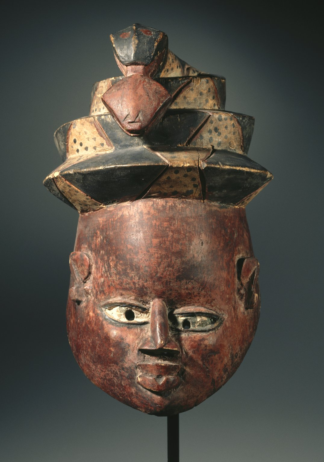 Wooden mask, painted elaborate coiffure, representing curled-up snake. Eyes and nostrils pierced. Condition: Slightly worn.